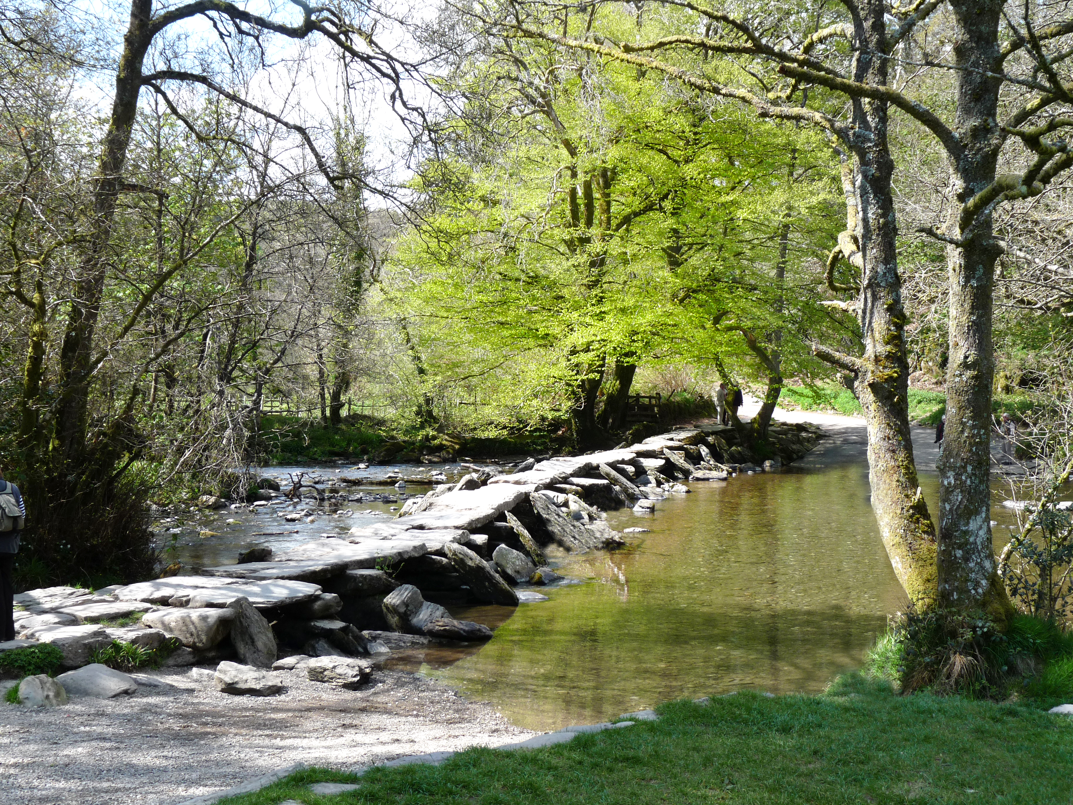 Tarr Steps 01